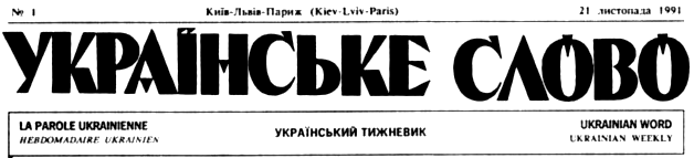 Logo-banner of the Ukrainian-language newspaper «Українське Слово» (Ukrainian Word), published in Kyiv-Lviv-Paris.